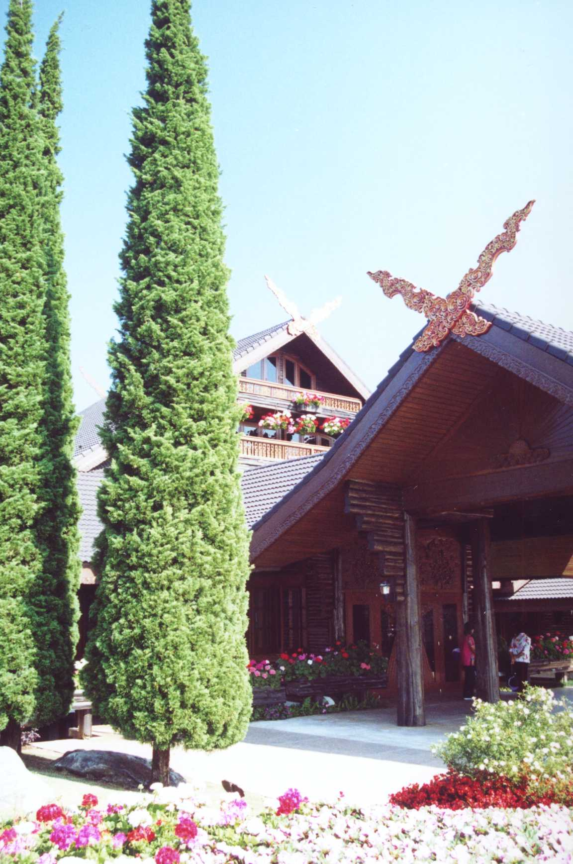 Doi Tung royal villa, former residence of the Somdet Phra Srinagarindra Boromarajajonani (more commonly known as Mae Fah Luang), the mother of King Bhumipol of Thailand. Located in Mae Fah Luang district, Chiang Rai province. Photo taken by User:Ahoerstemeier on February 2 2006.